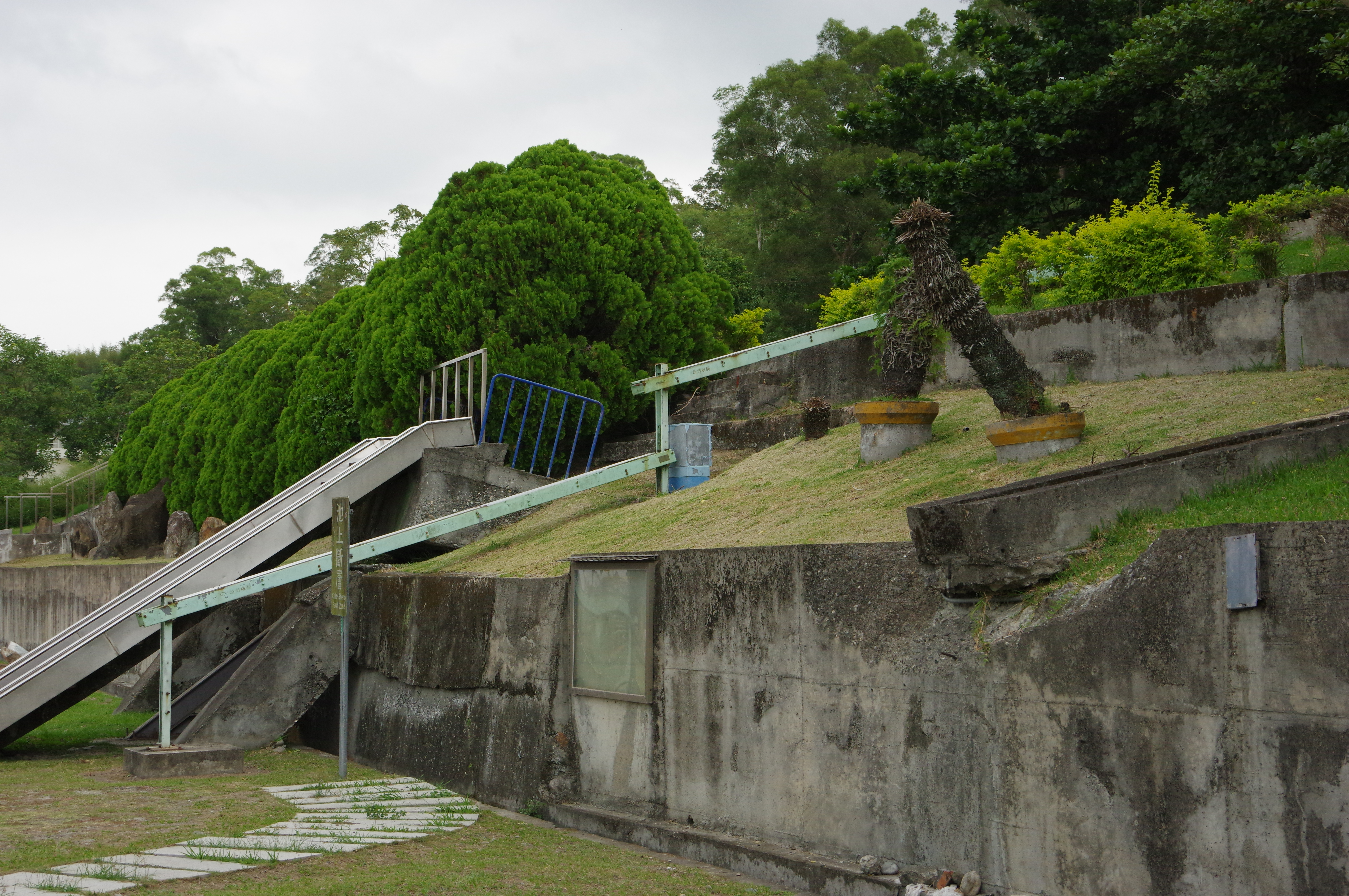 Chin-Sheng Fault Zone Observatory in Chihshang, Taitung, Taiwan